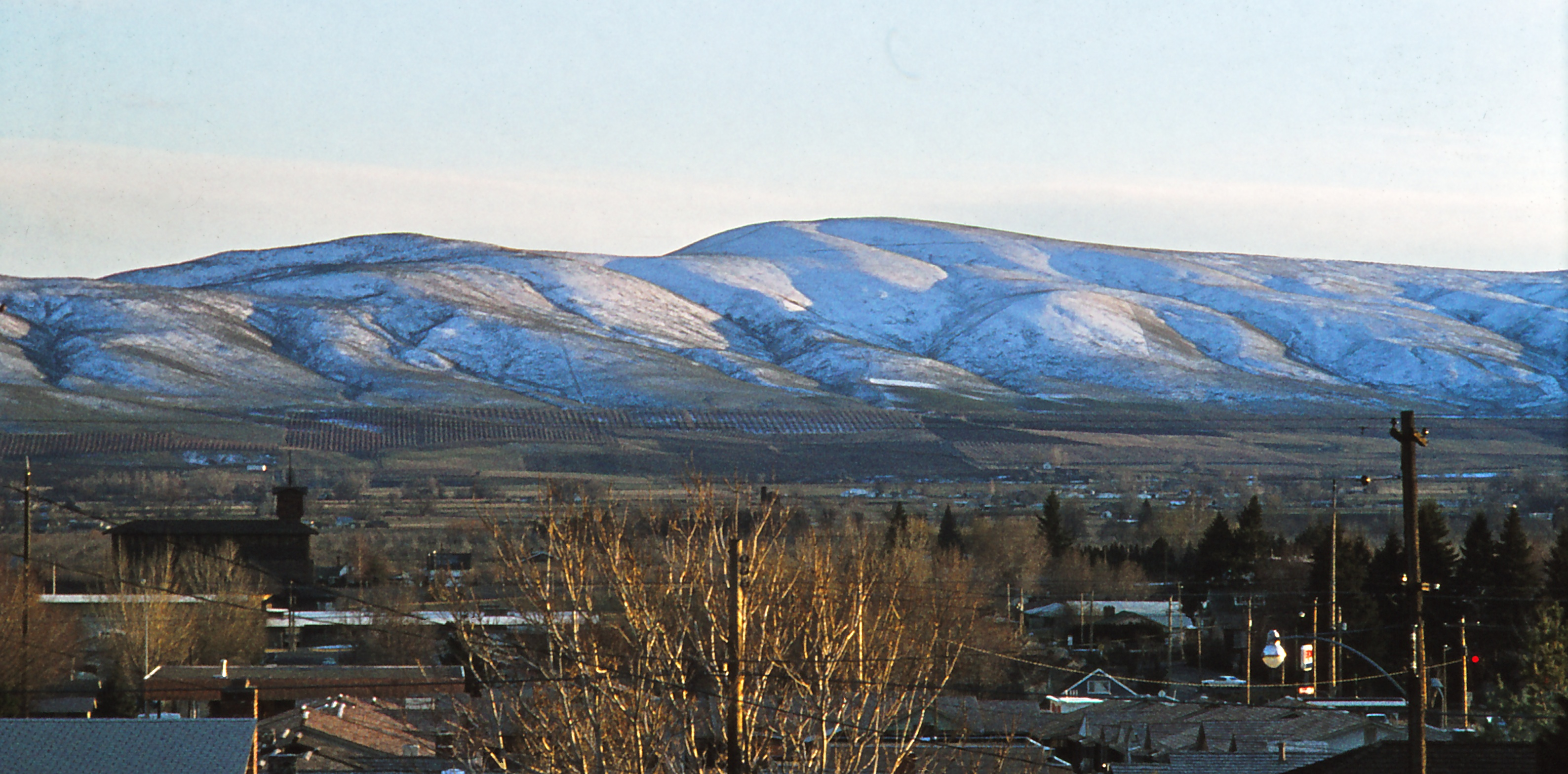 Ahtanum Ridge from 5414